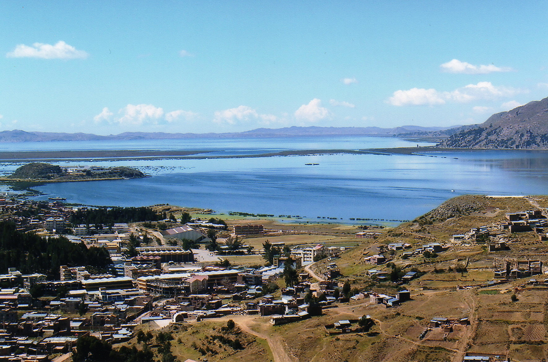 A view of Lake Titicaca from the hills which surround the town of Puno. This is on the Peruvian side of the Lake.